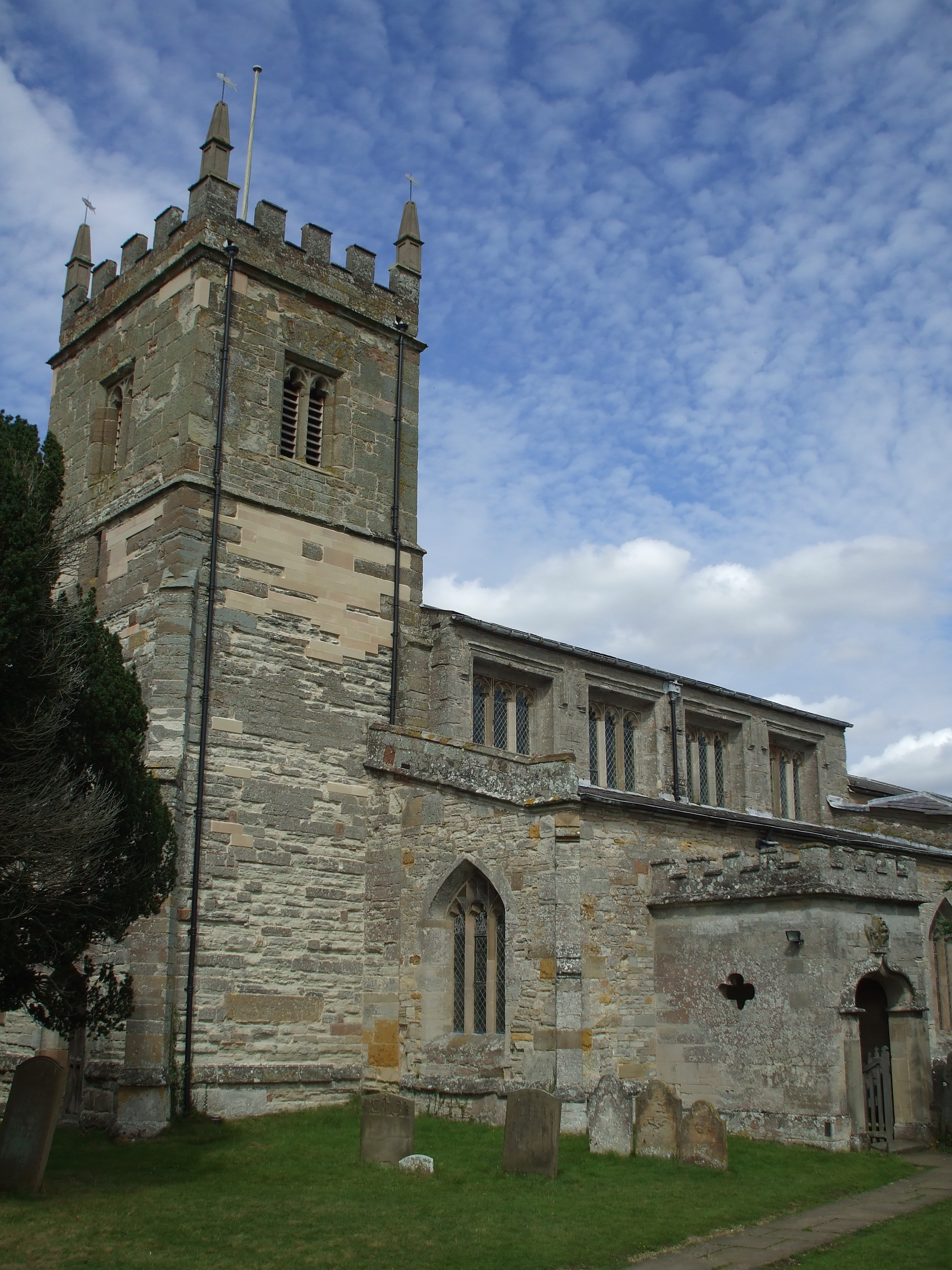 St Peters Church, Coughton, Warwickshire